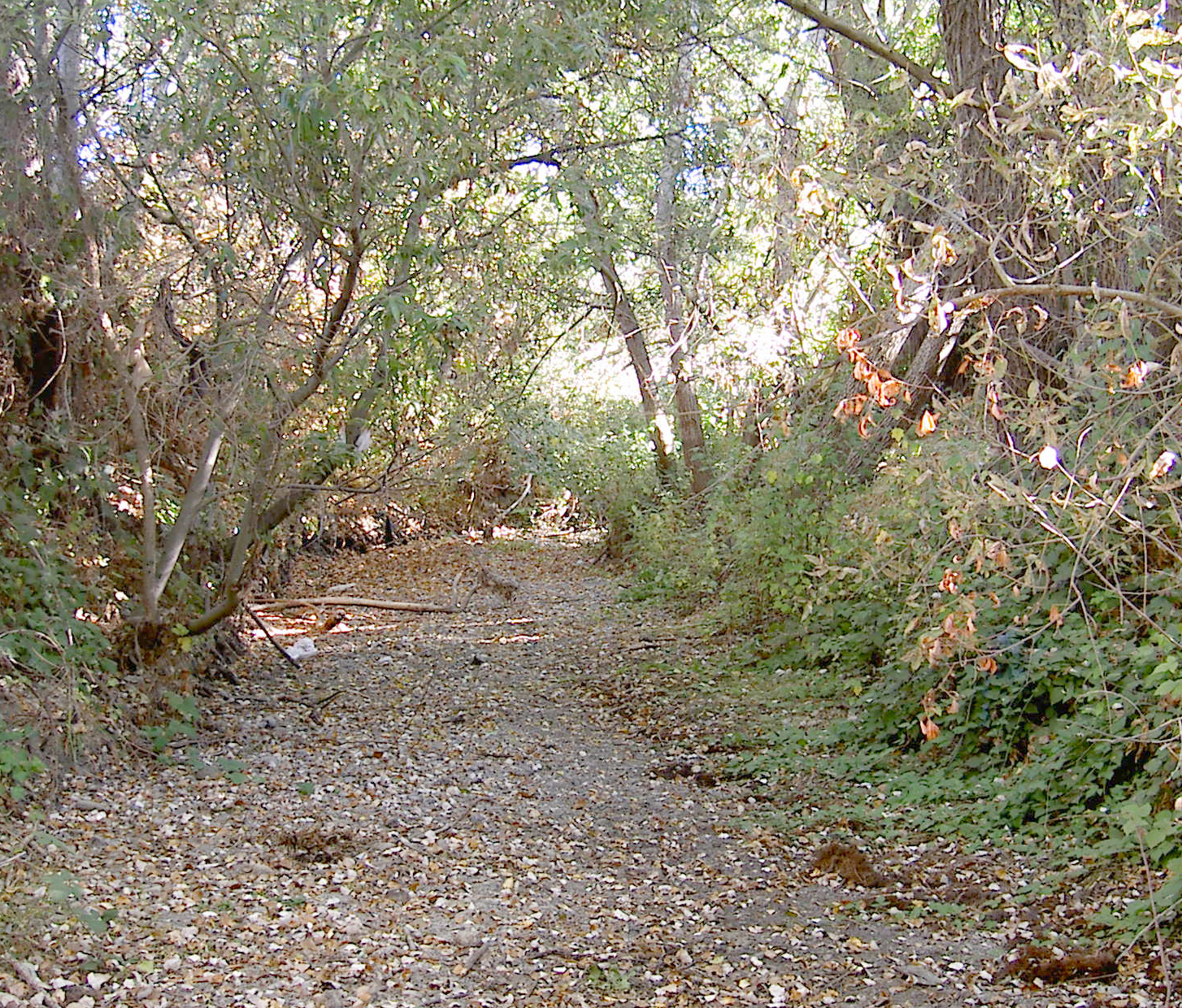 dry bed of Lynch Creek in Lucchesi Park north of McDowell Boulevard, Petaluma, California, looking upstream (note: dry season)